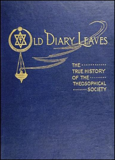 H. S. Olcott's Book Old Diary Leaves. Cover of 1895 edition.